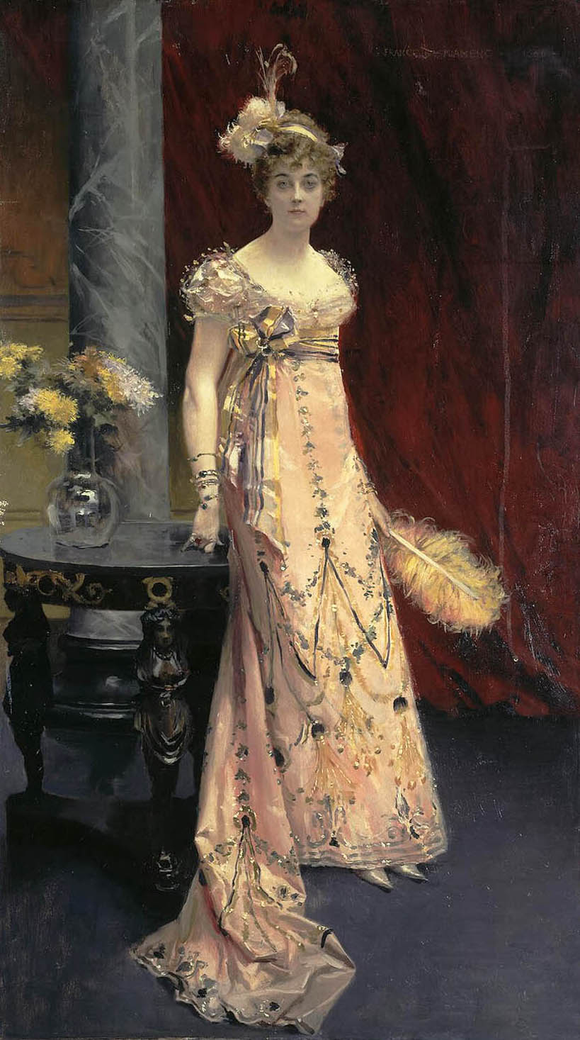 Daria Evgenievna Kochubey by François Flameng (State Hermitage Museum — St. Petersburg, Russia)